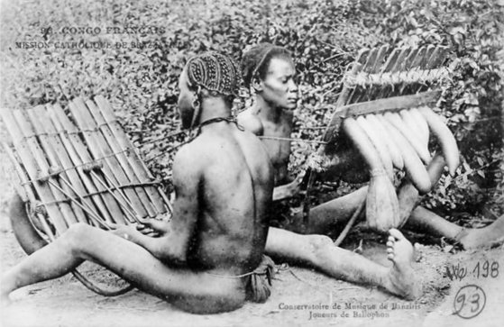 Two seated Balafon players on a variant type of raised balafon with 10 beams. Catholic mission of Brazzaville, French Congo. Conservatory of the Banziris.